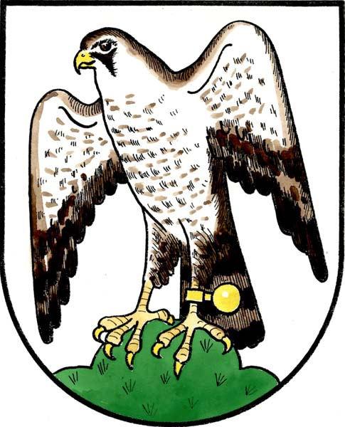 Municipal coat of arms of Sokolov town, Czech Republic.